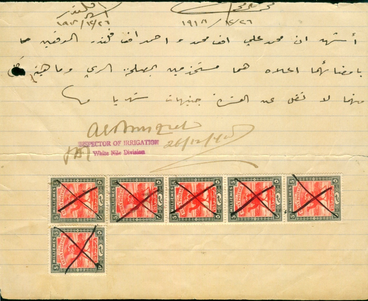 Sudan postage stamps used for revenue purposes. Original camel postman design first used 1898.